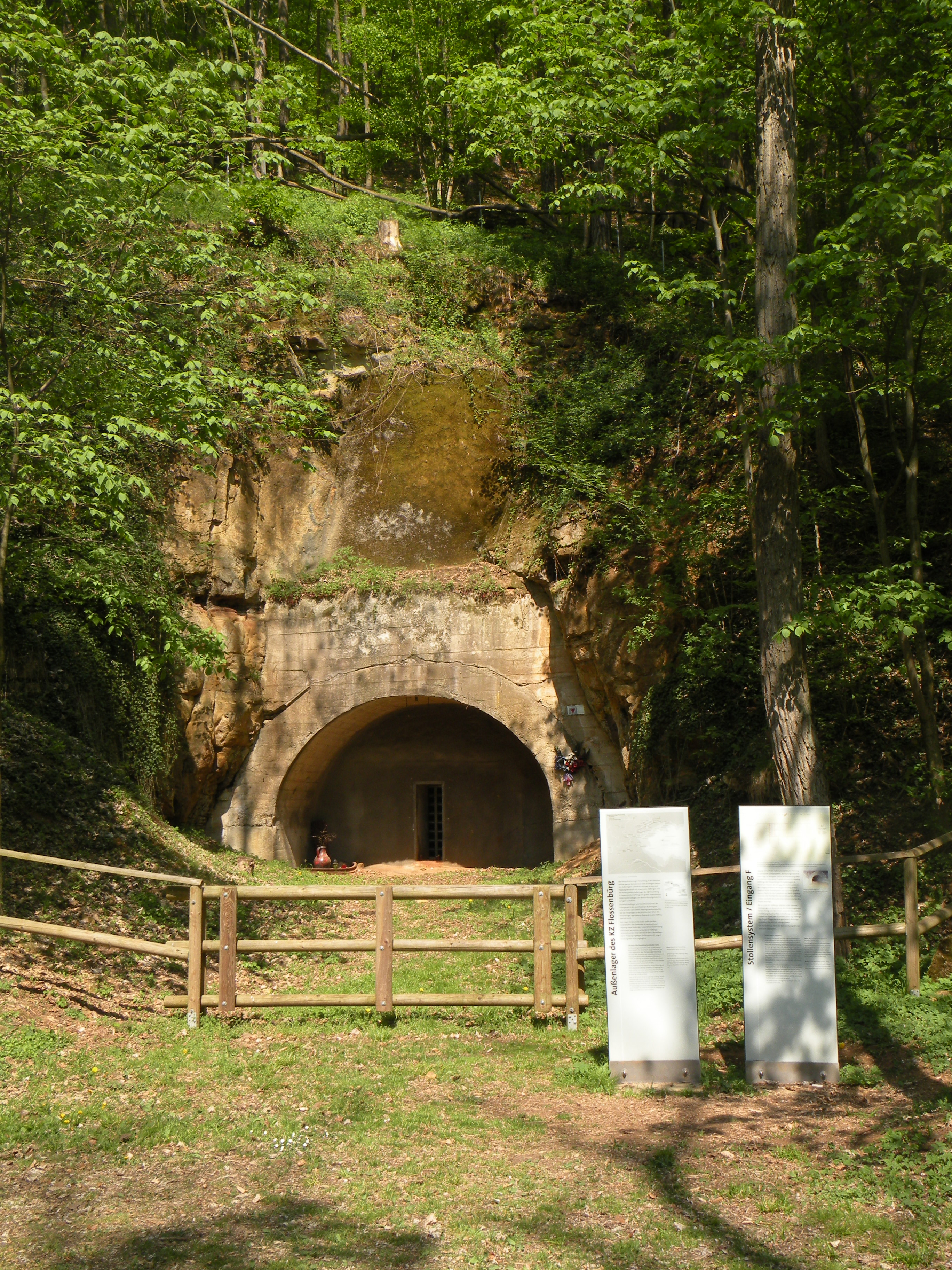 Happurg.Underground factory